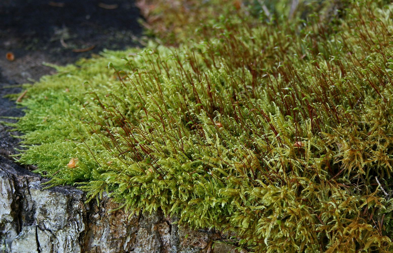 Sanionia uncinata, Scorpidiaceae – Österreich/Austria/Autriche: Tirol, Kitzbüheler Alpen, Jochbergwald ca. 2,5 km N Pass Thurn, ca. 1060 m